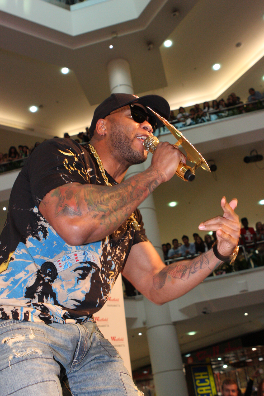 Flo Rida in Sydney.